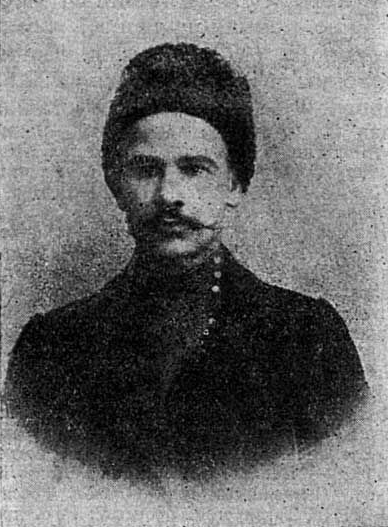 Russian professional revolutionary